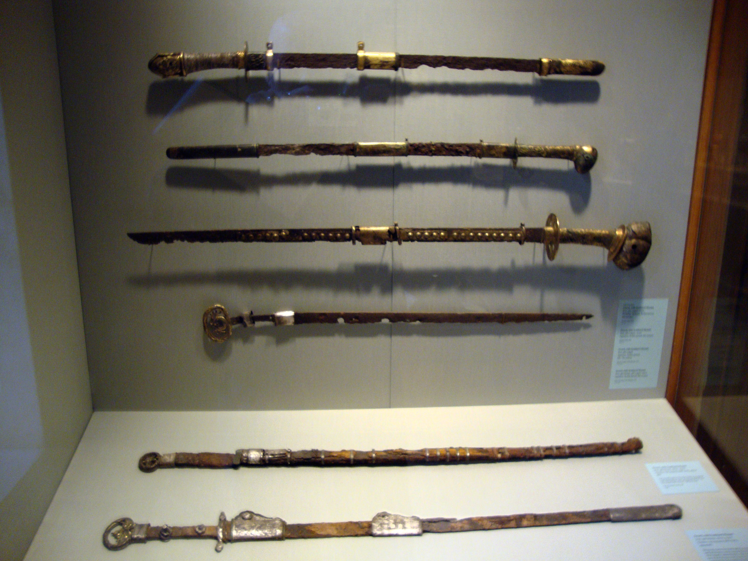 Ancient Japanese swords, pre-folded era (not Mokume Gane), 6th_7th_century_Kofun_period, NY Metropolitan Museum.